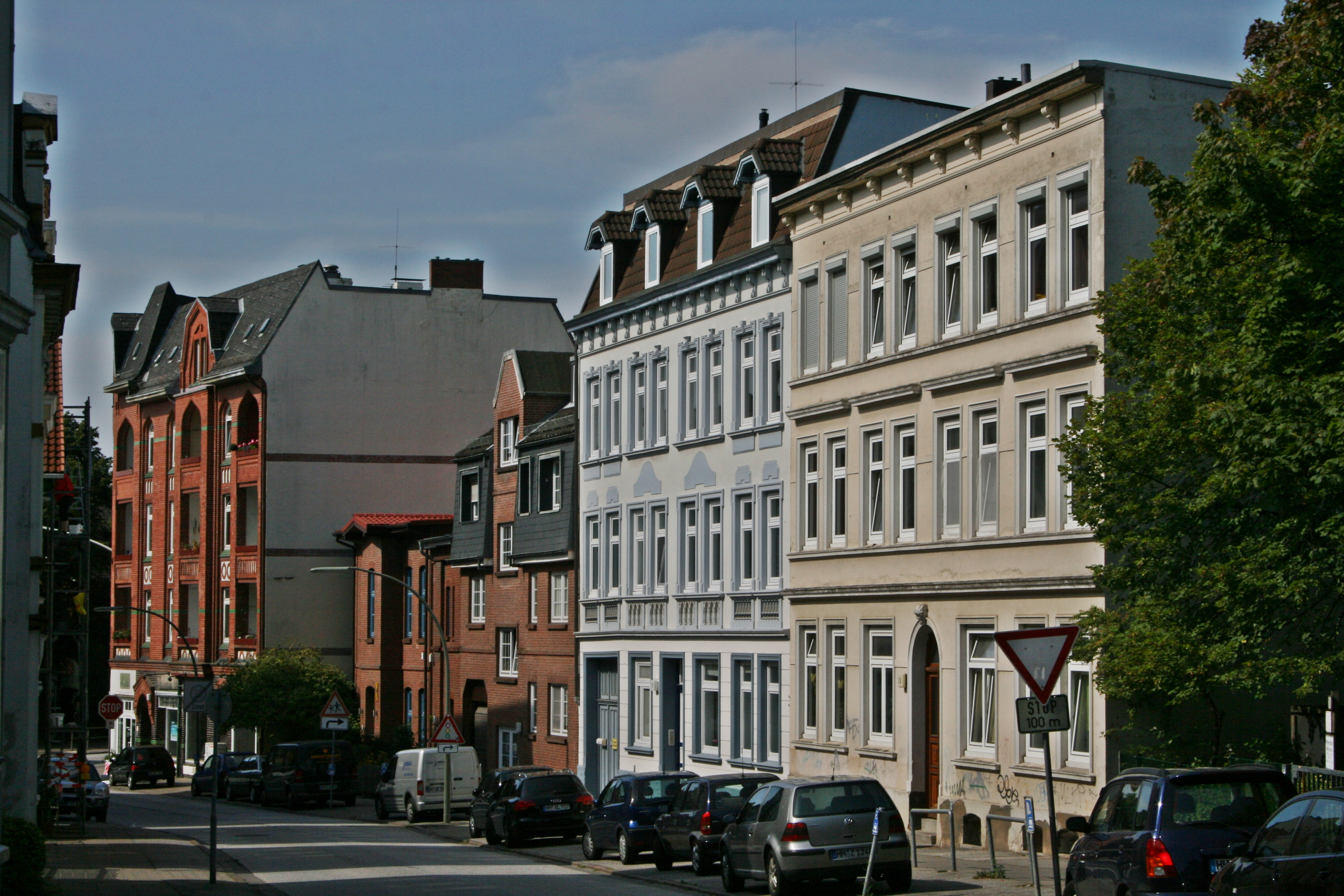 The August-Bebel-Straße in Hamburg-Bergedorf. A Stolperstein for Mary Dobrzinsky, victim of the Holocaust, is placed in front of house 1.